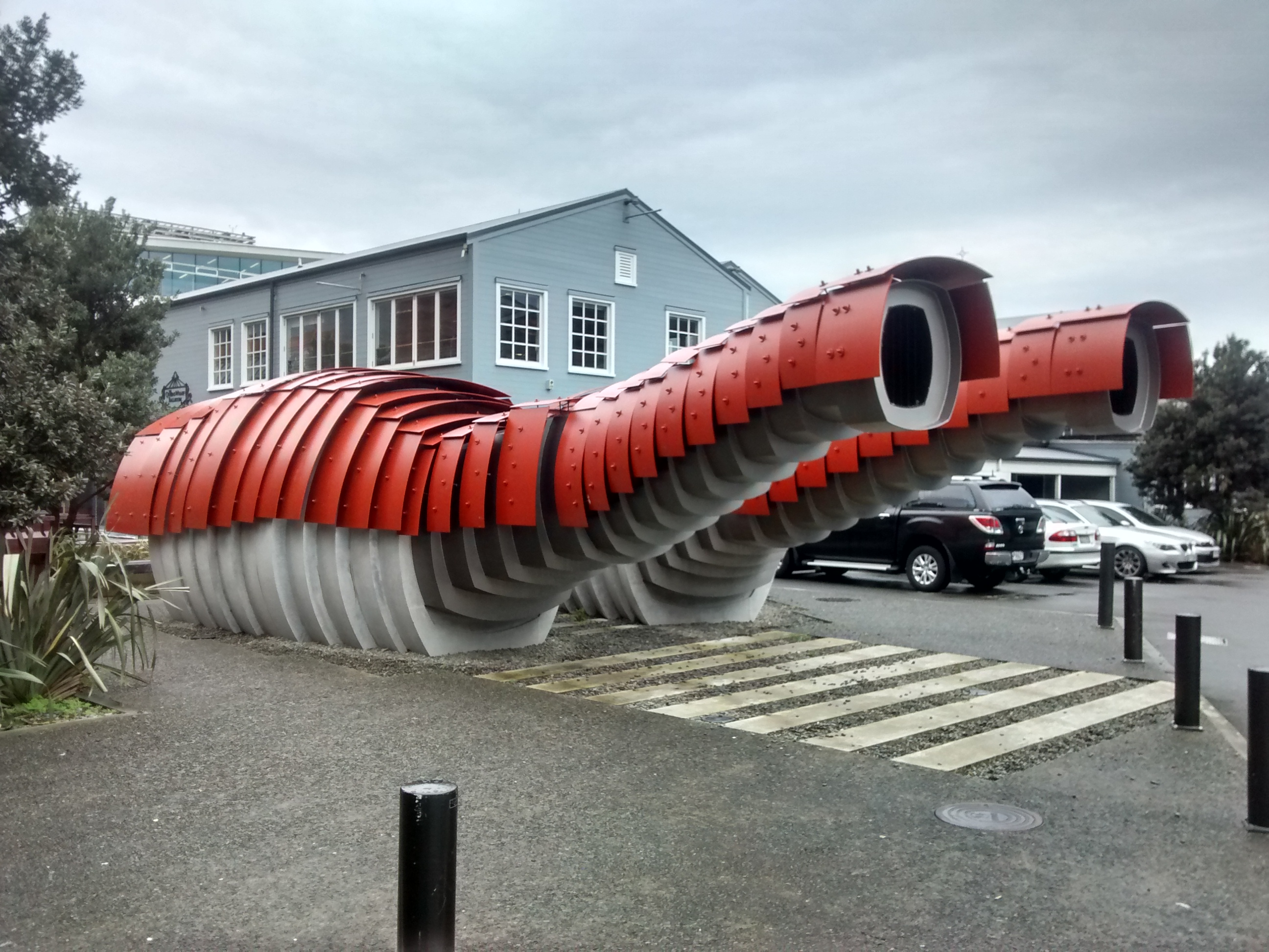 So called "Lobster loos" on the Wellington waterfront